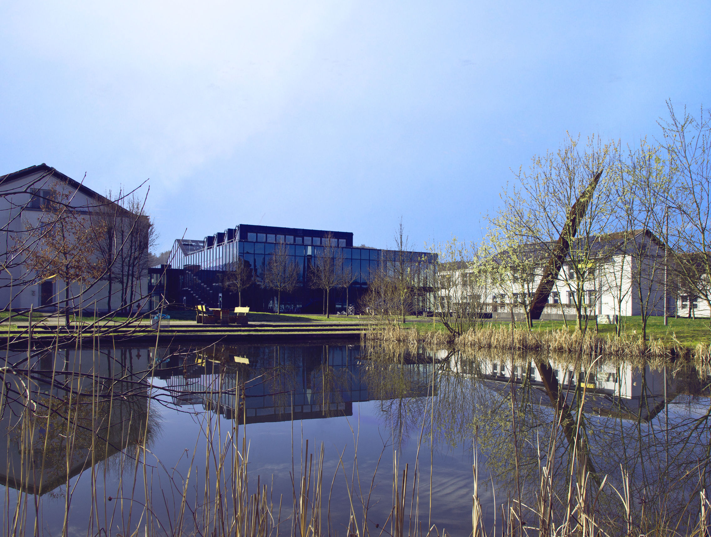 Zentraler Neubau und Campus-Teich